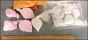 Cocaine flavored like Strawberries and other fruits from San Francisco.